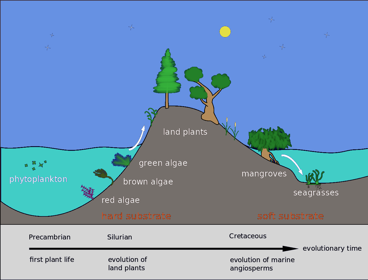 Submerged macrophyte evolution. Precambrian: First plant life (phytoplankton shown here) Silurian: Algal evolution Appearance of the first land plants Diversification of land plants: developed higher plant characteristics such as woodiness and sexual reproduction. Cretaceous: marine angiosperms evolved, characterised by mangroves and salt-marsh plants in intertidal zones seagrasses as the dominant submerged macrophyte Recoloured version of this image